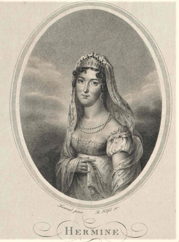 Hermine of Anhalt-Bernburg-Schaumburg-Hoym (1797-1817), Archduchess of Austria